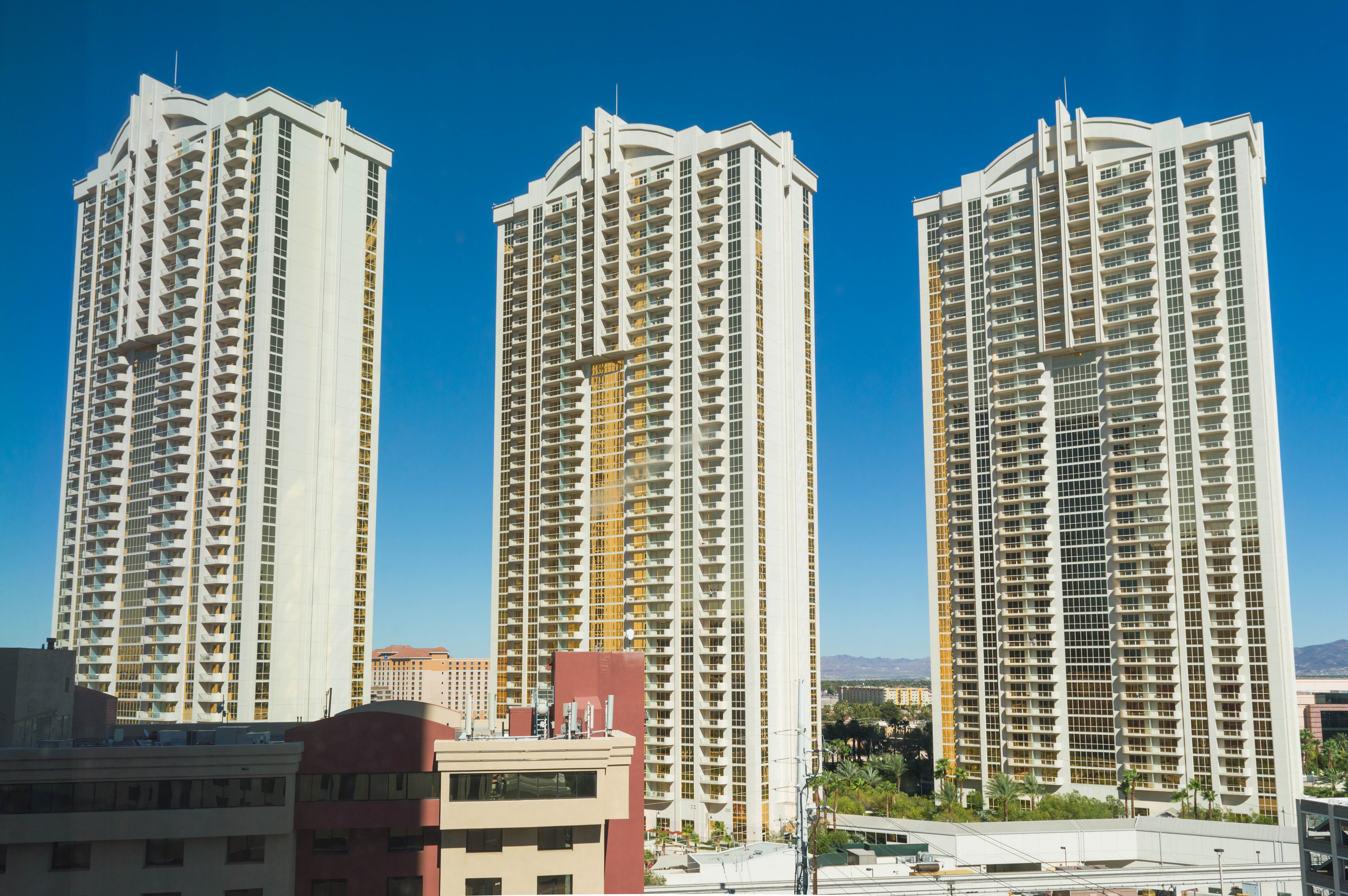 The Signature at MGM Grand (from left to right: tower I, II and III), seen from inside Marriott's Grand Chateau.